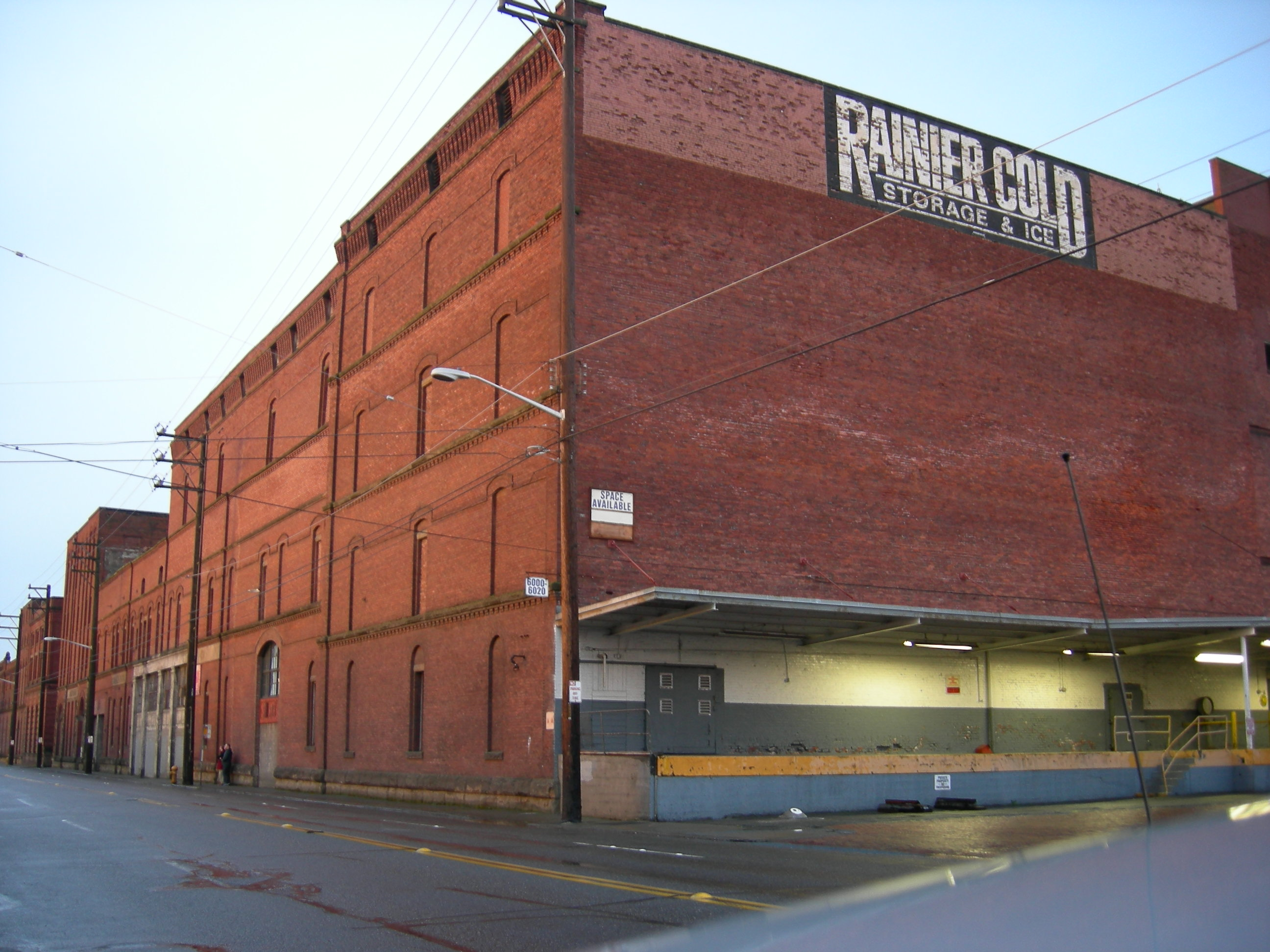 Rainier Cold Storage, the former stock house of the "Old" Rainier Brewery, Georgetown, Seattle, Washington. The building dates from 1903 and is distinct from the more iconic Rainier Brewery. View from the south side. The stock house was demolished January 2008. Compare File:Seattle Brewing and Malting Co malt house, Seattle (CURTIS 1494).jpeg (about a century earlier).